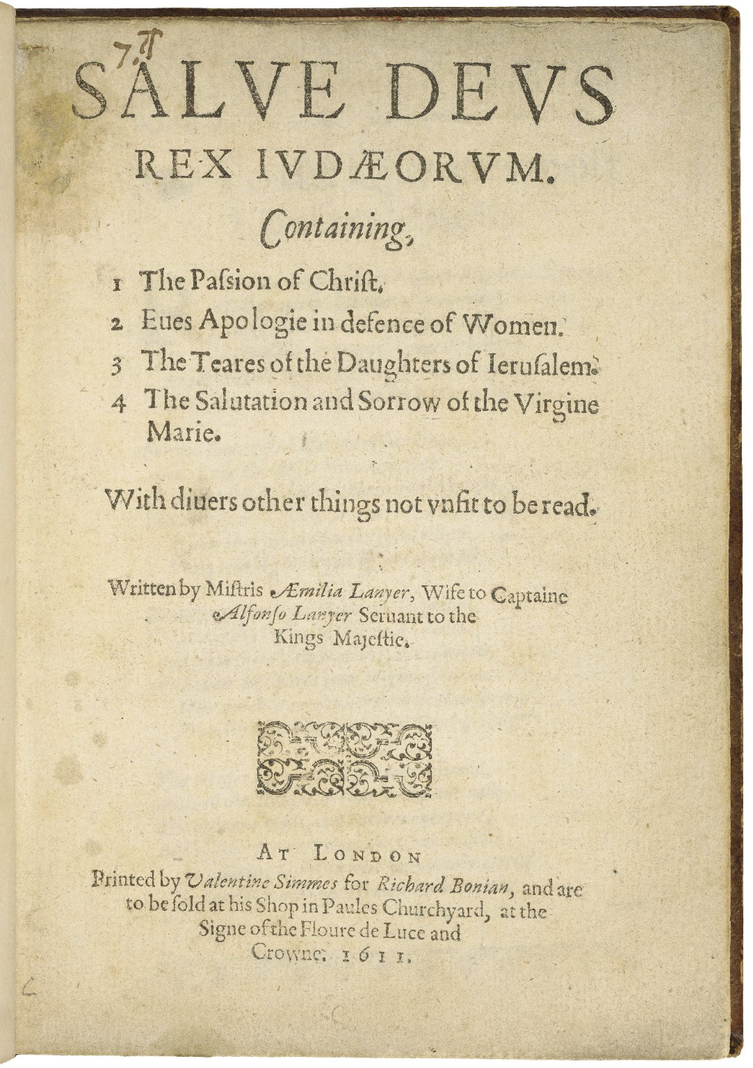 Title page of Emilia Lanier's book of poems.